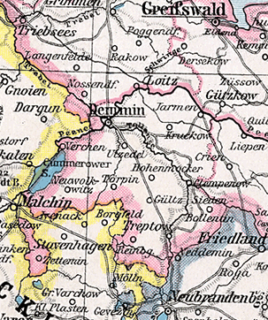 Detail from a map of Pomerania.